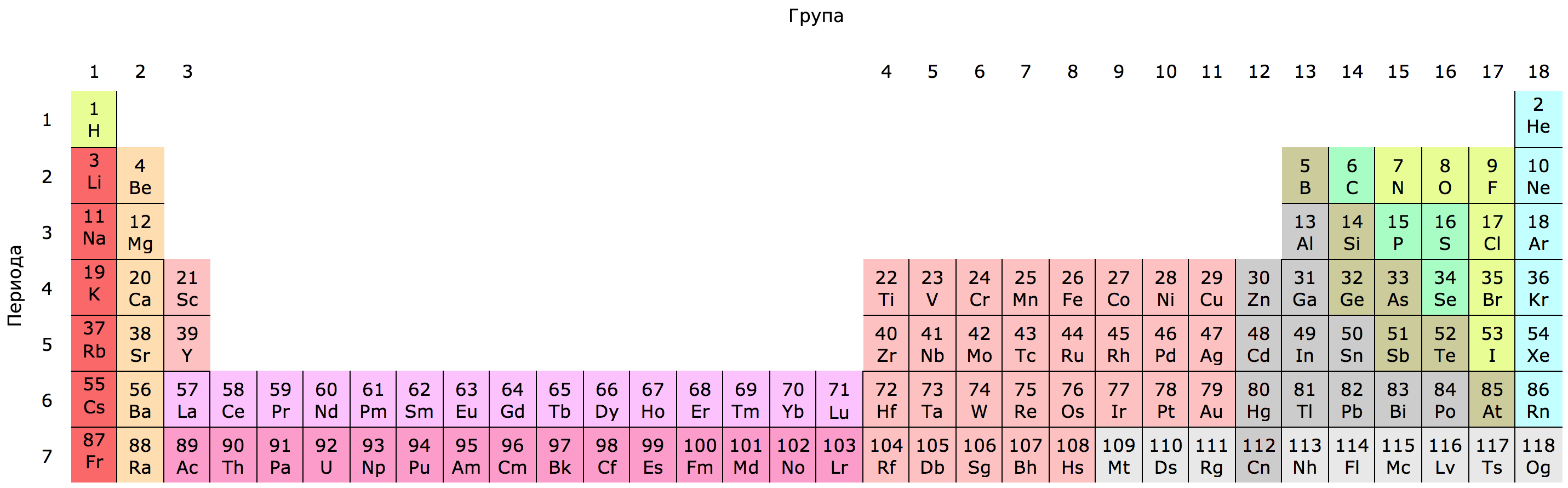 32-column periodic table with Sc, Y, La and Ac in group 3 [in Serbian]